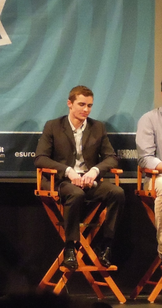 Dave Franco at a convention March 2012 Original photographer: on Jon Lebkowsky on March 12, 2012 Cropped by: DaveFrancoFanatic on July 11, 2013